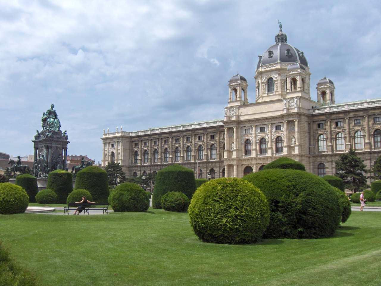 Austria, Vienna, Naturhistorisches Museum